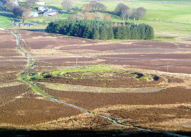 Fallburn Hillfort This is a superbly preserved circular hillfort with a series of concentric ramparts. It measures about 60m in diameter and the shape is well picked out by the low November sun.